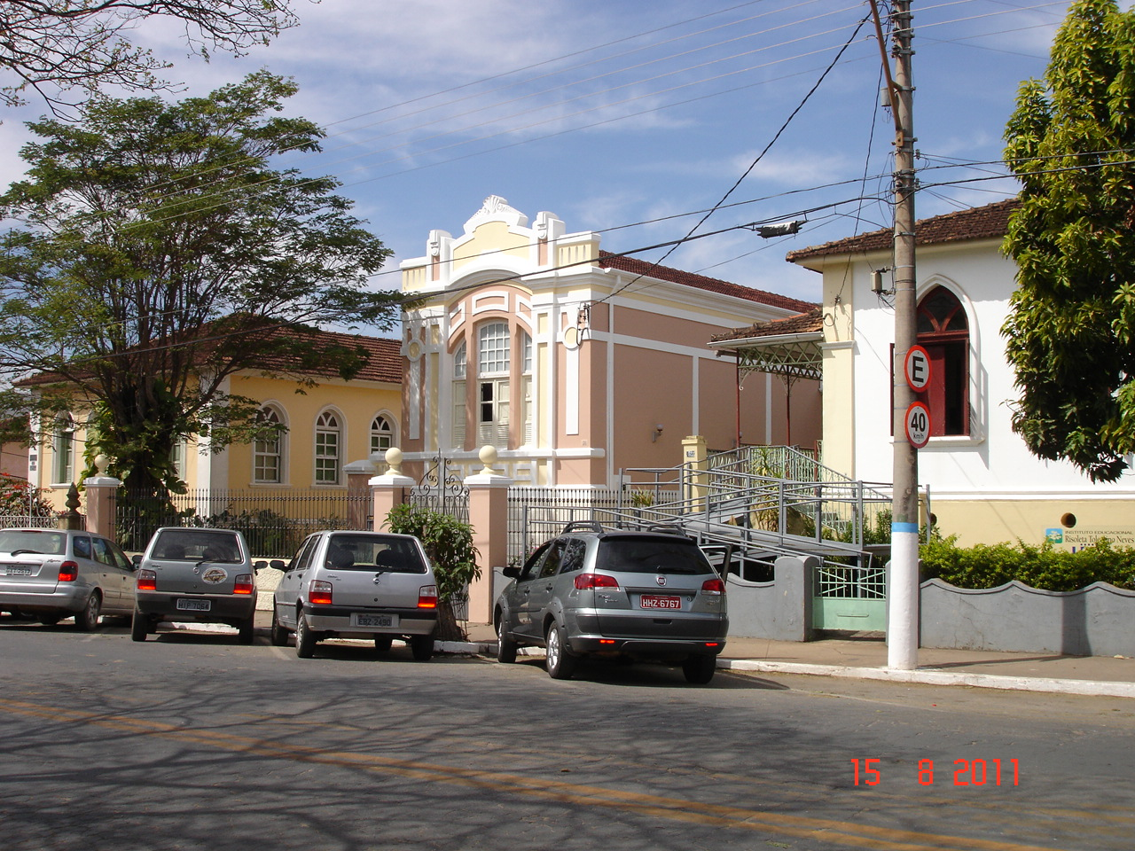 This a picture from the Claudio's downtown.